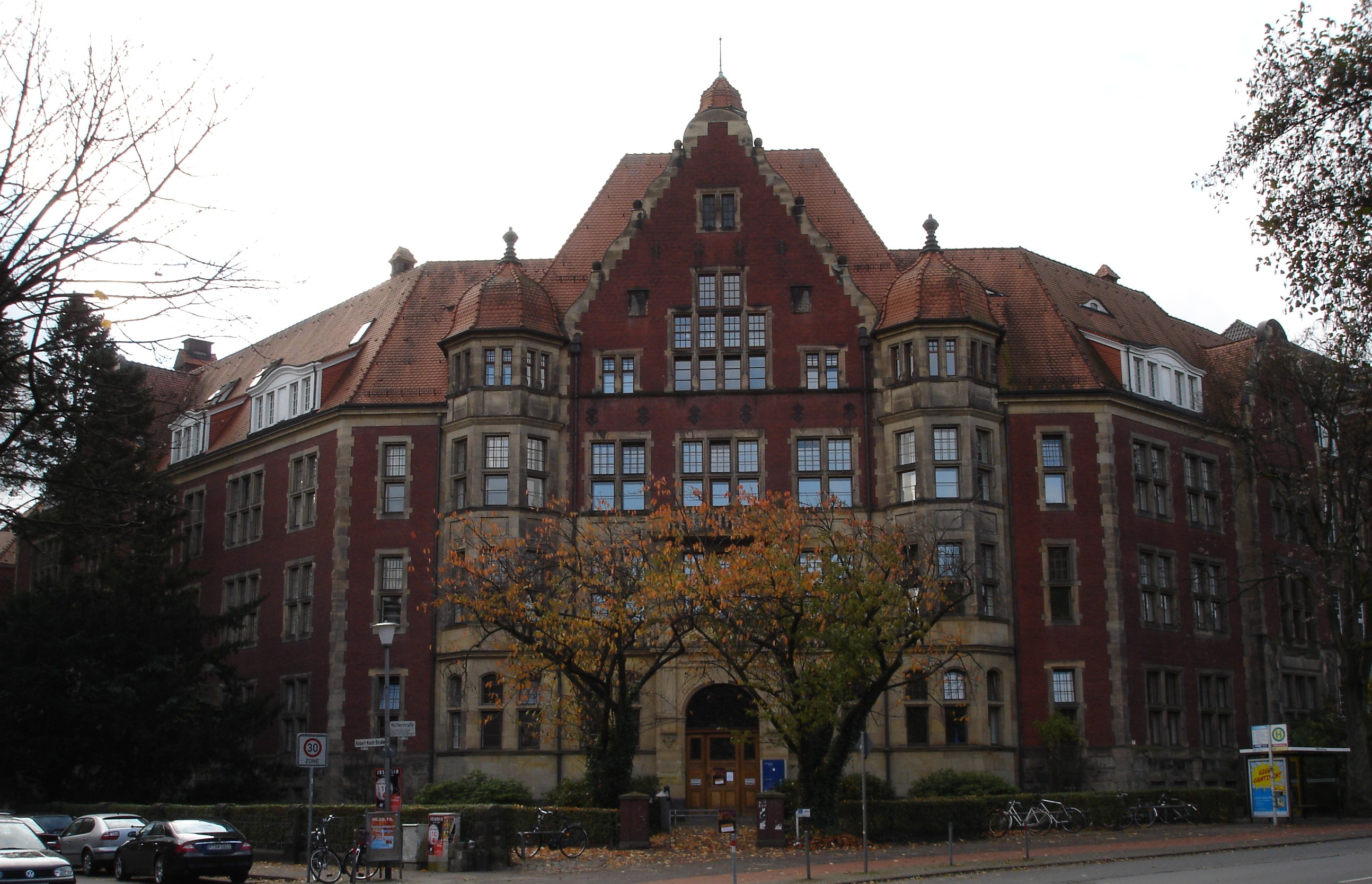 View on the main entrance of the "Hüfferstiftung" in the city of Münster (Westphalia), Germany